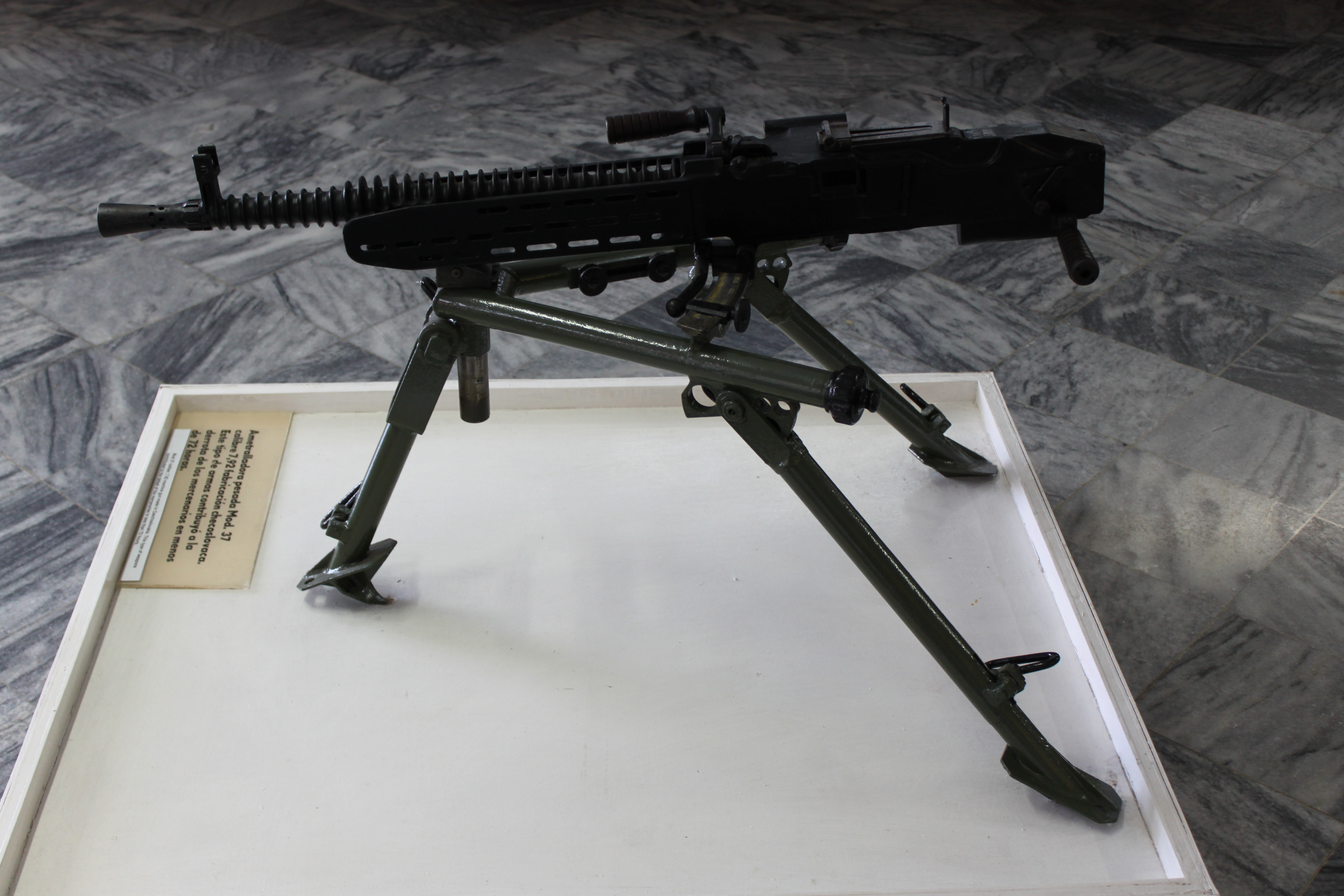 Museo Girón (museum about the invasion in the Bay of Pigs): Mod. 37 machine gun made in Czechoslovakia and used vy the Cuban revolutionary troops